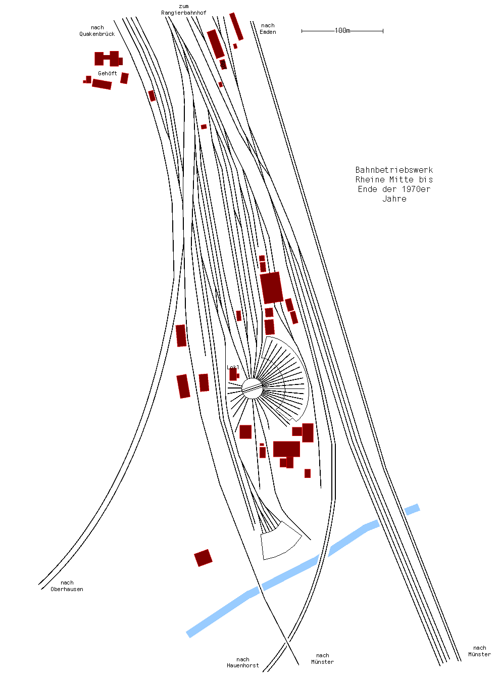 Plan des Bw Rheine Mitte bis Ende der 1970er Jahre